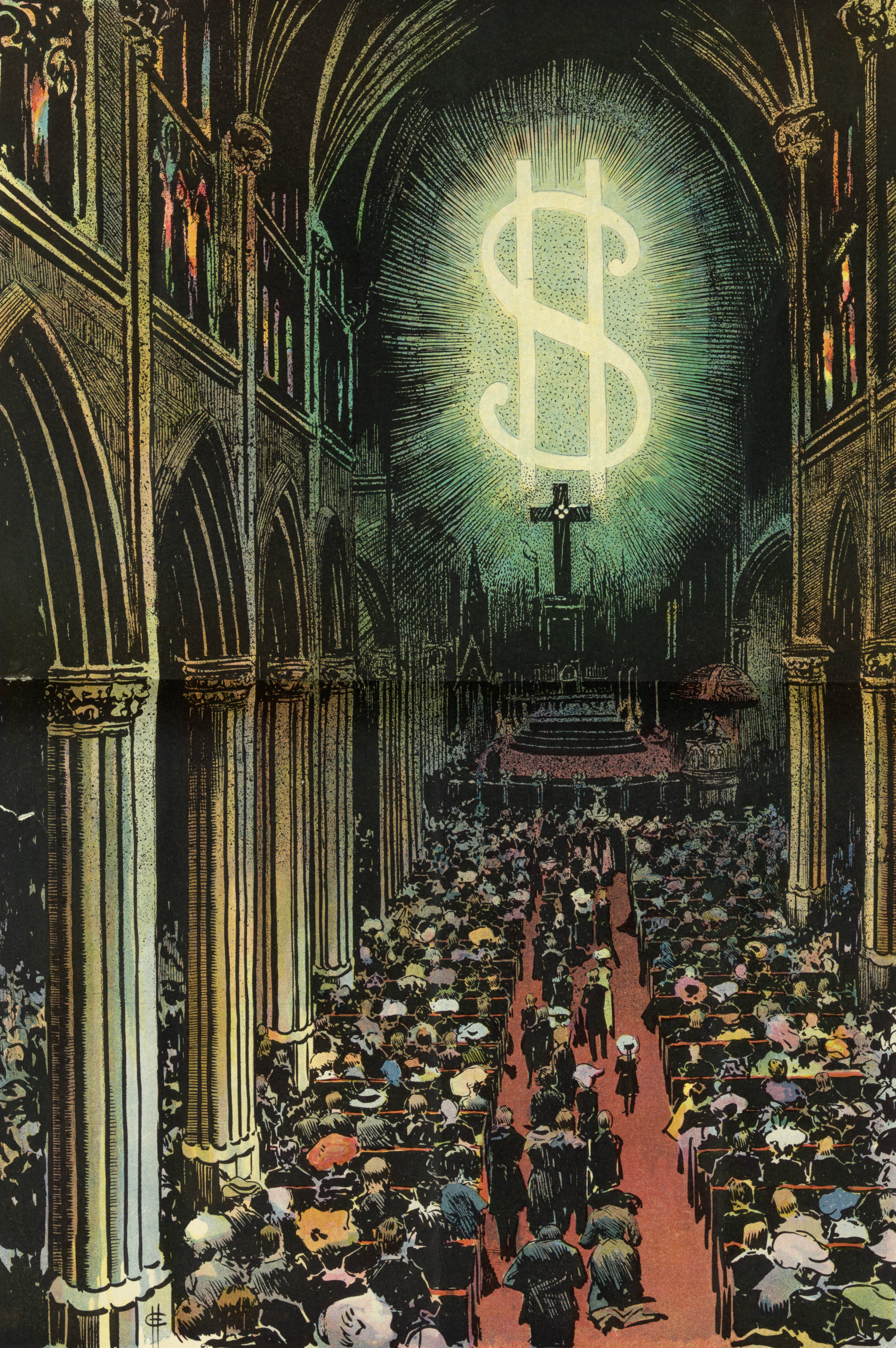 Illustration shows the interior of a cathedral, filled to capacity, with an enormous "$" illuminated in the place of a rose window (Illus. in: Puck, v. 61, no. 1576 (1907 May 15), centerfold).